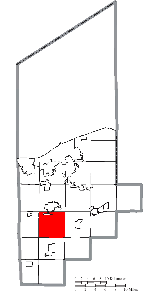 Map of the municipal and township boundaries of Lorain County, Ohio, United States, as of the 2000 census, with the location of Pittsfield Township highlighted. Township borders are shown only in unincorporated areas in order to differentiate incorporated and unincorporated areas more clearly.